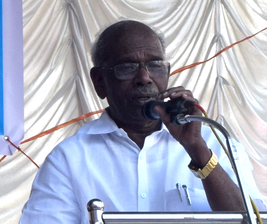 M M Mani